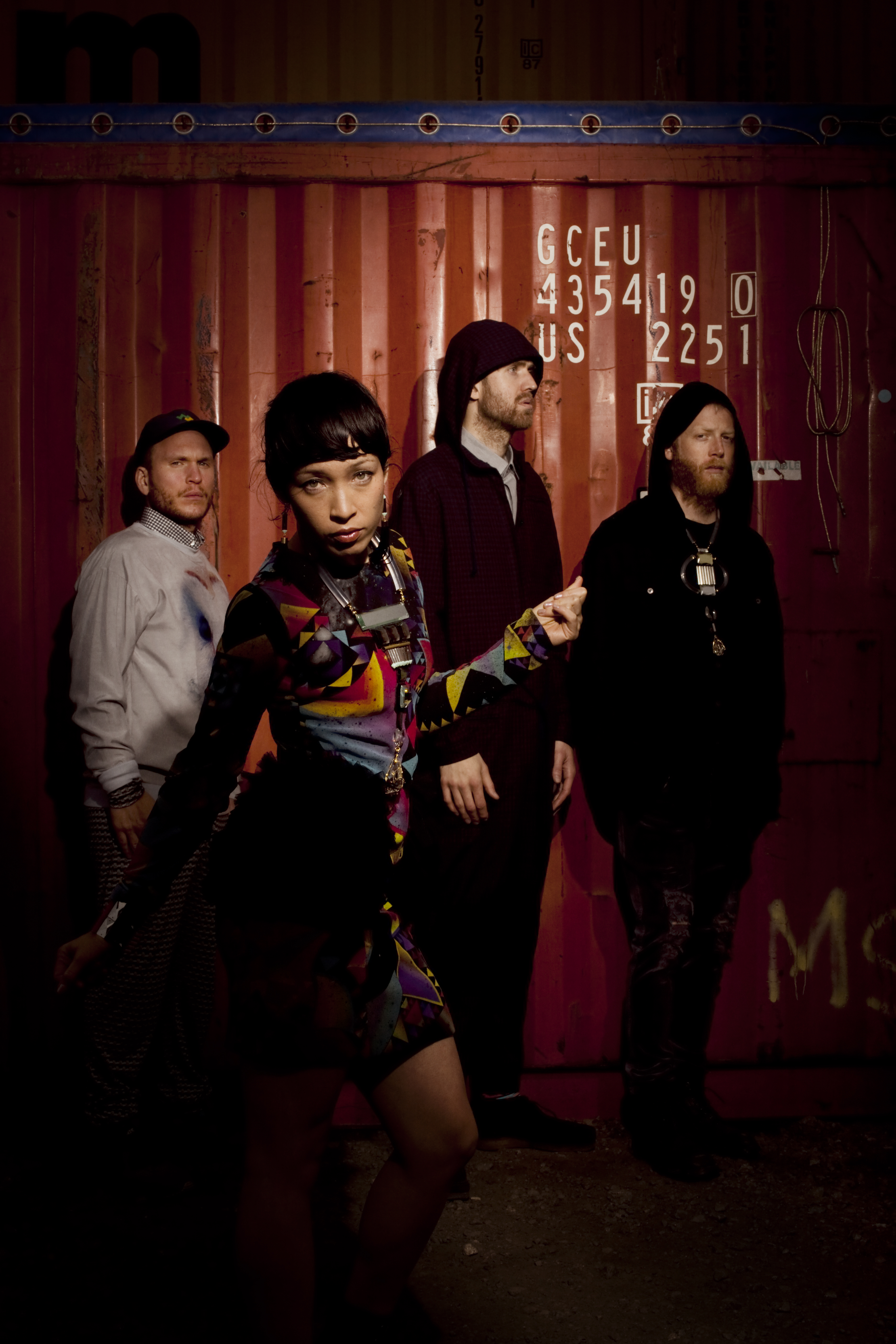 image of Little Dragon in front of a red container where Yukimi snaps her fingers wearing a colorful minidress